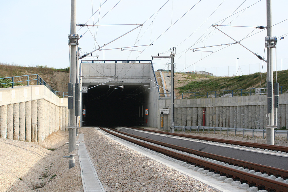 North portal of the Denkendorf-Tunnel, Nuremberg-Ingolstadt-Munich high-speed railway line